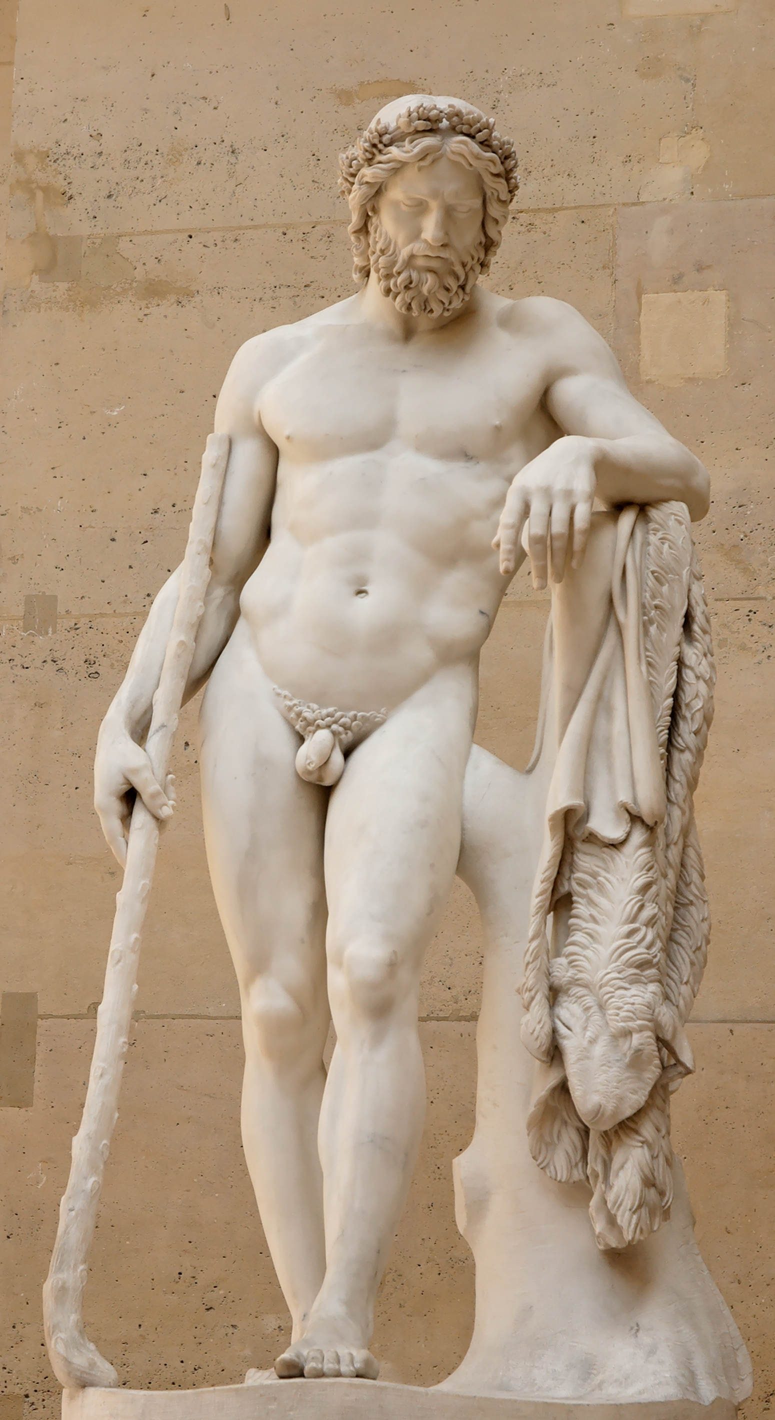 Aristée, dieu des jardins (Aristaeus, god of the gardens). Marble, exhibited at the Salon of 1817 (the plaster model was exhibited in the Salon of 1812).